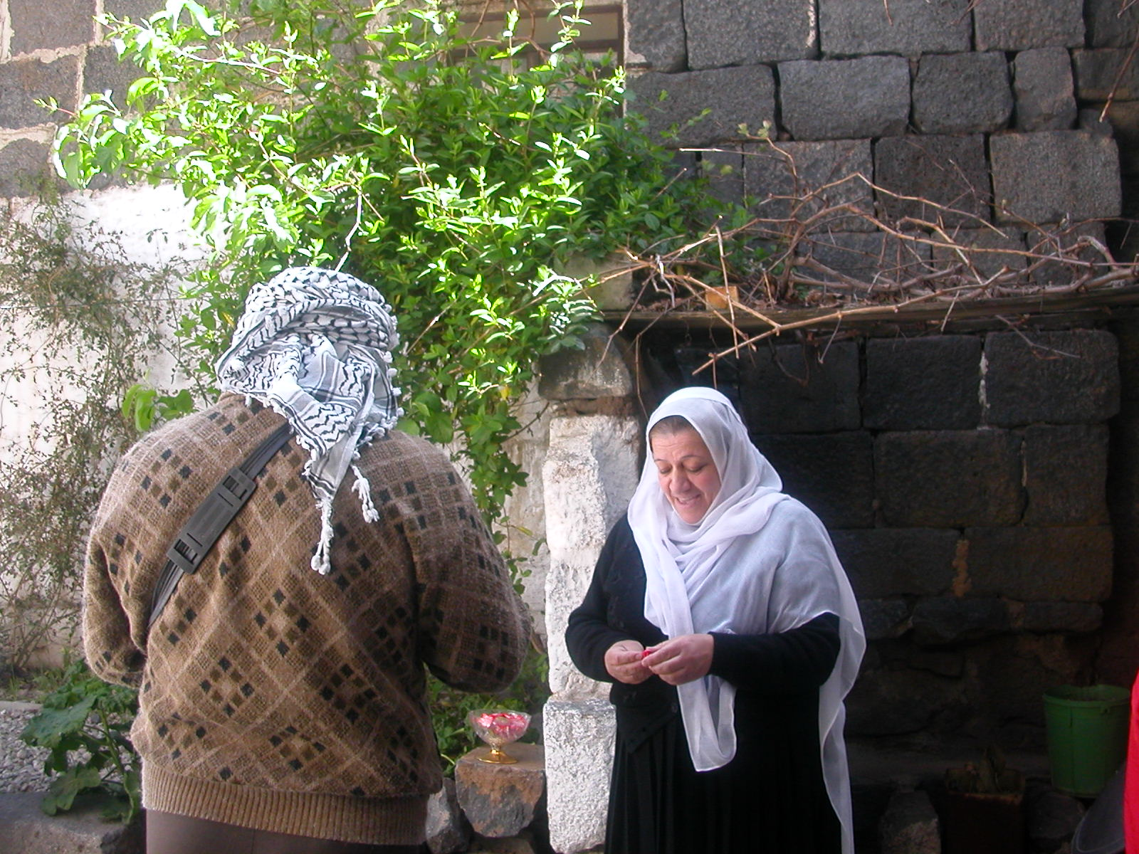 Druze woman in Philipopolis